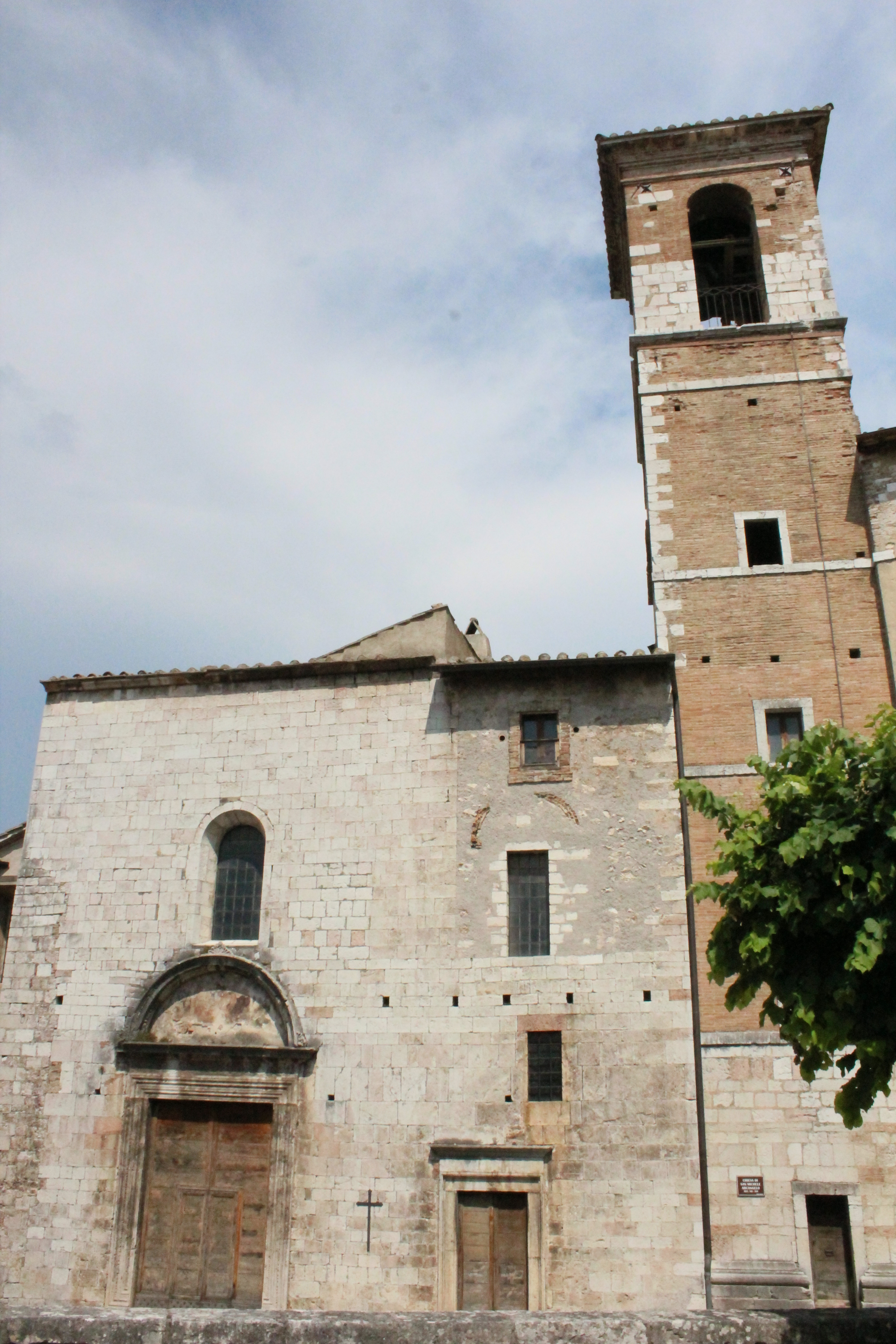 Church San Michele Arcangelo in Stroncone, Province of Terni, Umbria, Italy